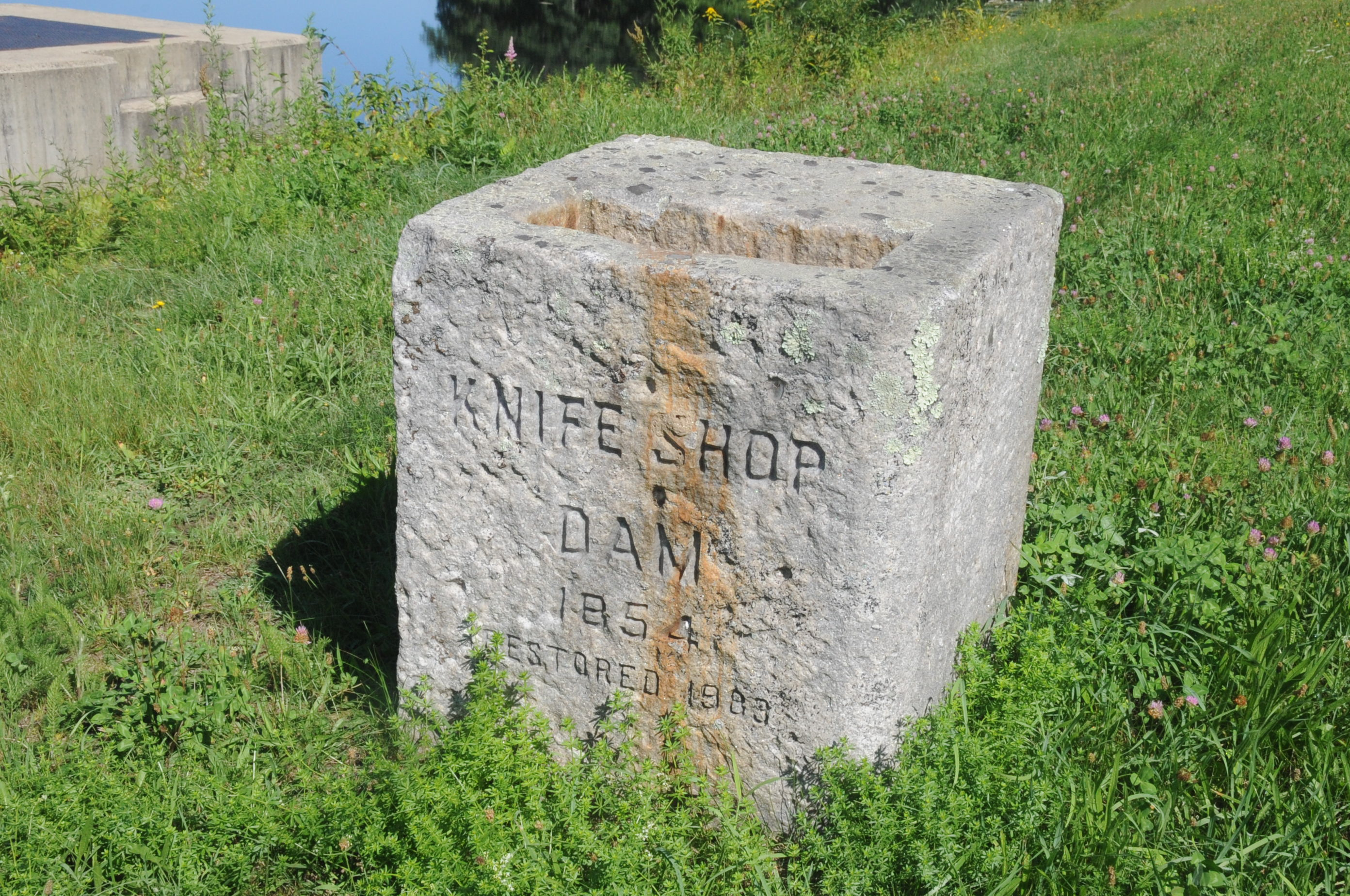 MARKER BESIDE THE DAM BUILT IN 1854 THAT SUPPLIED WATER POWER FOR THE NORTHFIELD KNIFE COMPANY WHICH STOOD AT THIS SITE. NOTHING REMAINS OF THE CONPANY BUILDINGS